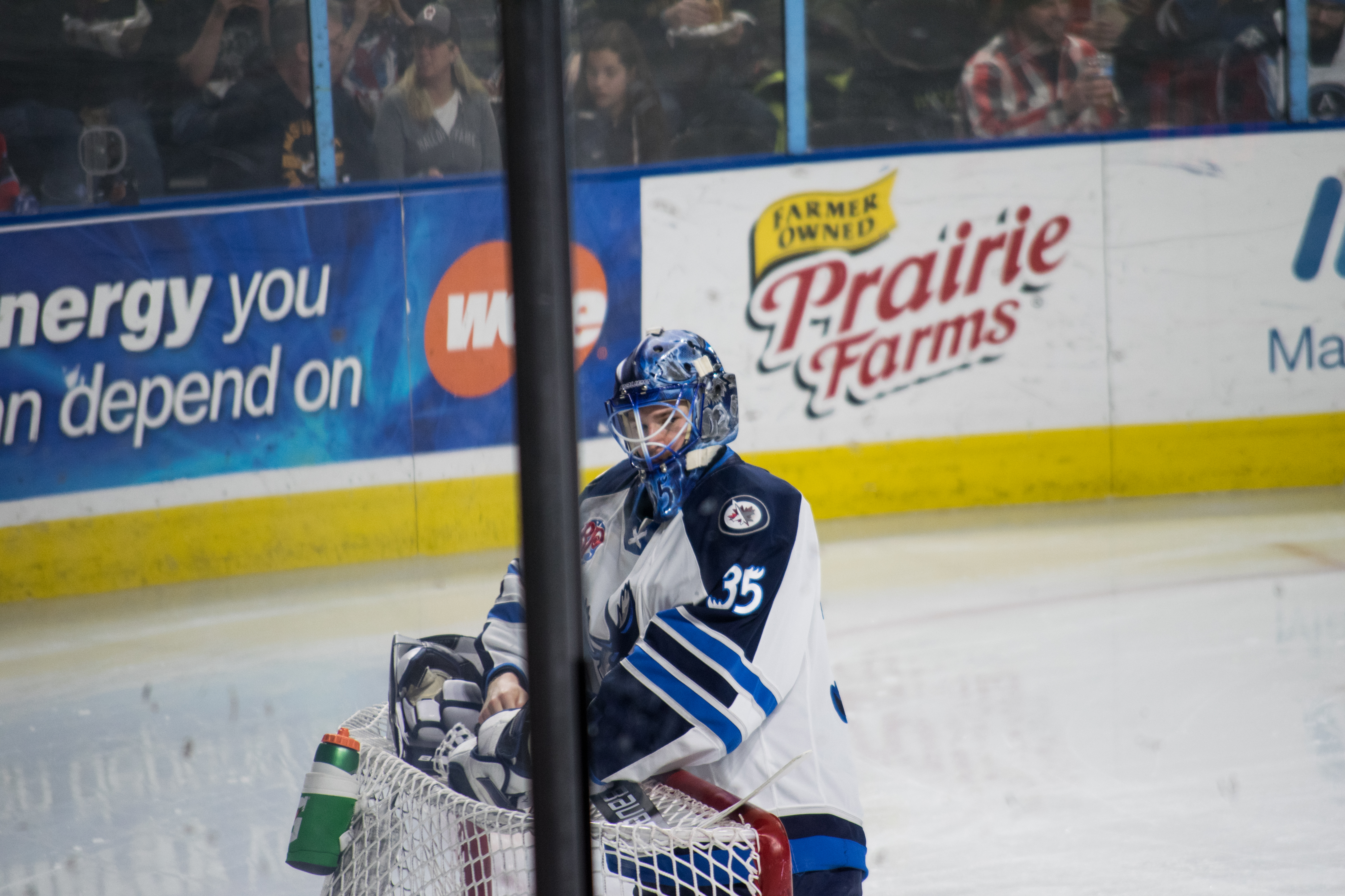 Photo of Manitoba Moose goaltender Ken Applby